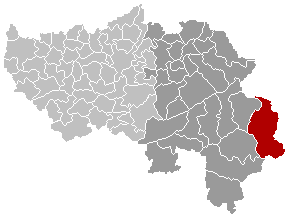 Map, municipality belgium Büllingen